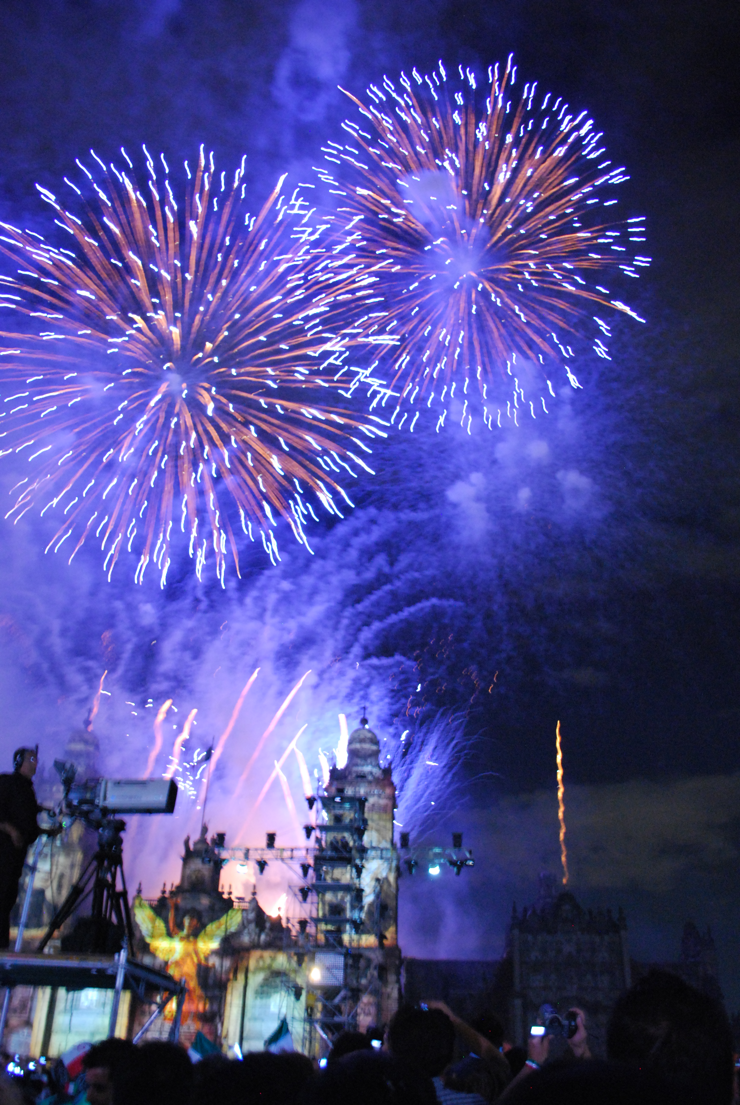 Fireworks after Grito 2010 in the Zocalo